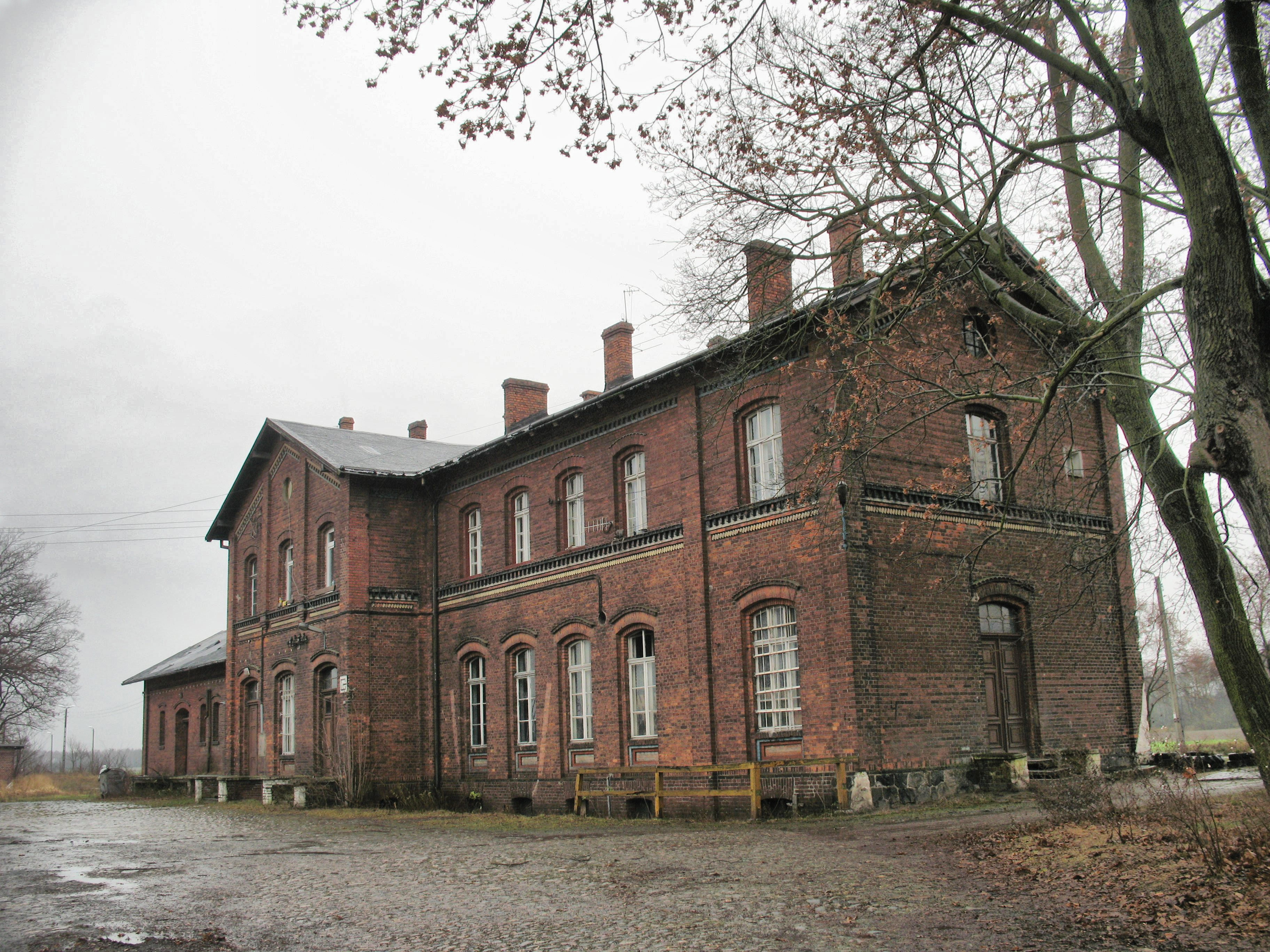 the railway station in Bieniów near Żary, Poland